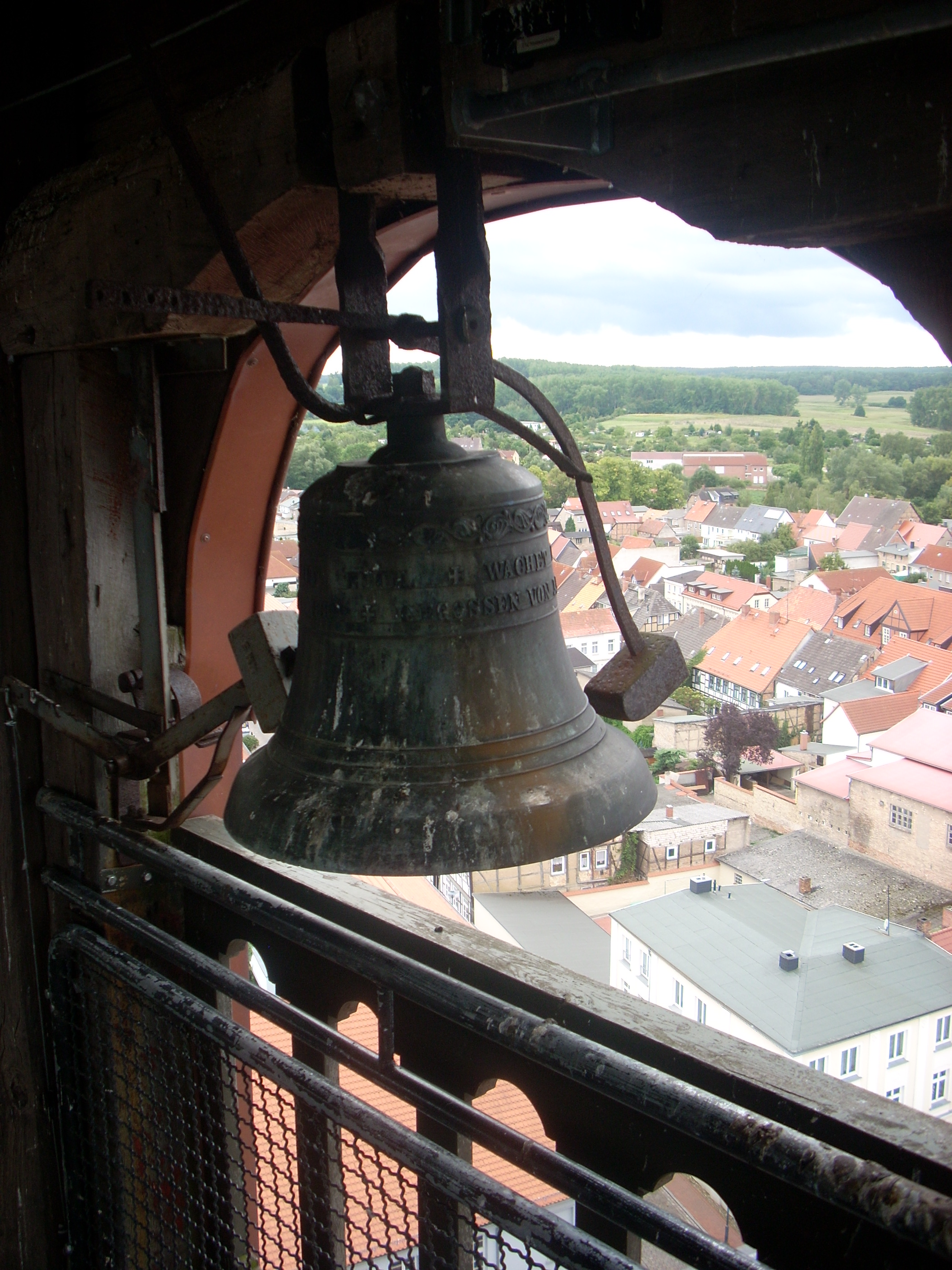 bell from the church-clock in the church Sternberg in Mecklenburg